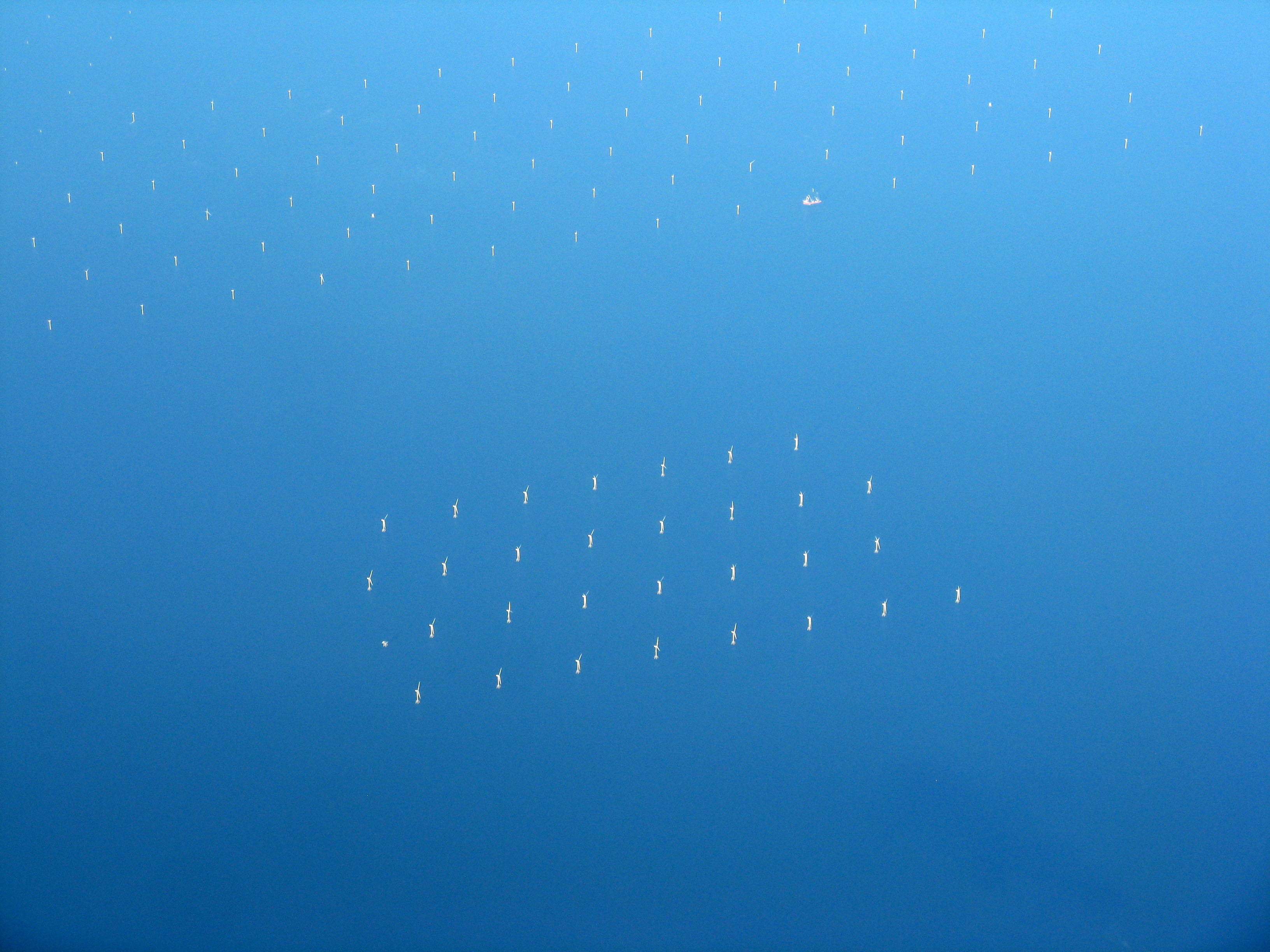 Ormonde Windfarm in the Irish Sea. The 30 turbines of Ormonde Wind Farm are in the foreground, and some of the 102 turbines of the Walney Wind Farm can be seen in the background.